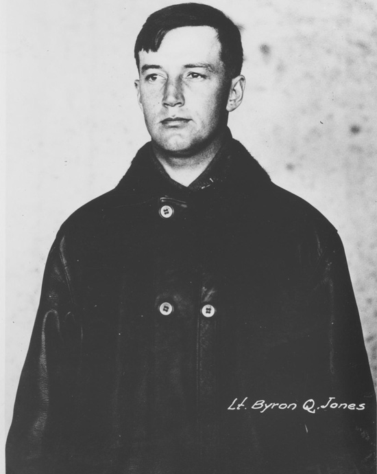 Byron Quinby Jones (1888–1959) circa 1910-1915